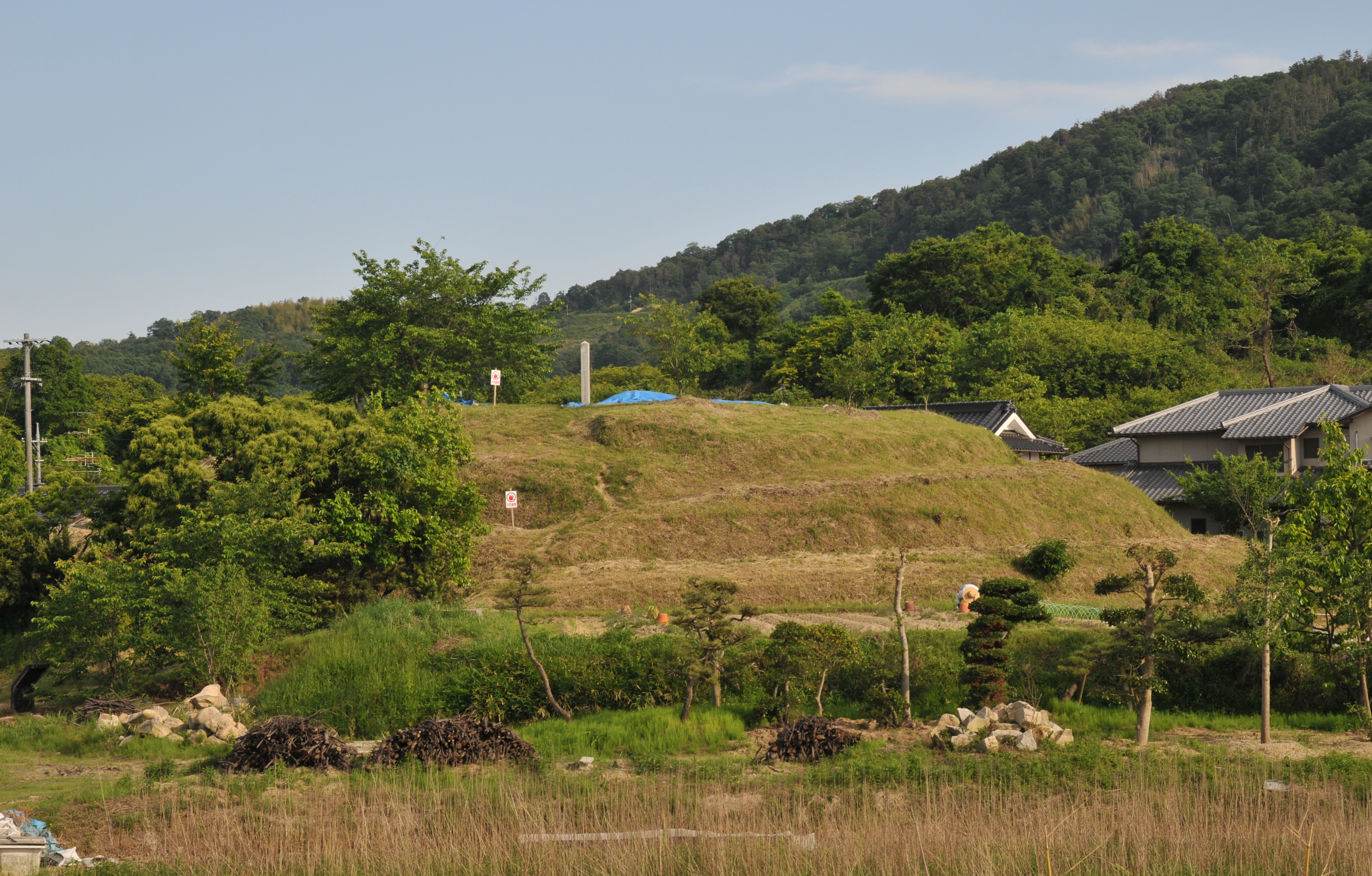 Senzoku Kofun, Tsukuriyama 5th mound